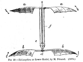 Adolphe Pénaud's rubber band driven helicopter model, featuring contra-rotating propellers, 1872.